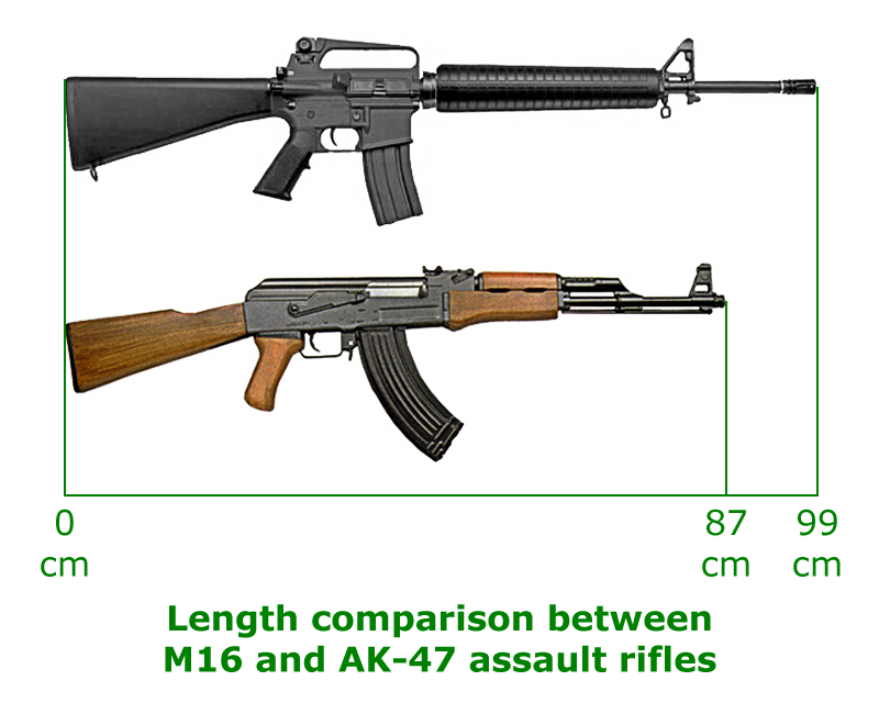 Length comparison between M16 and AK-47 assault rifles.